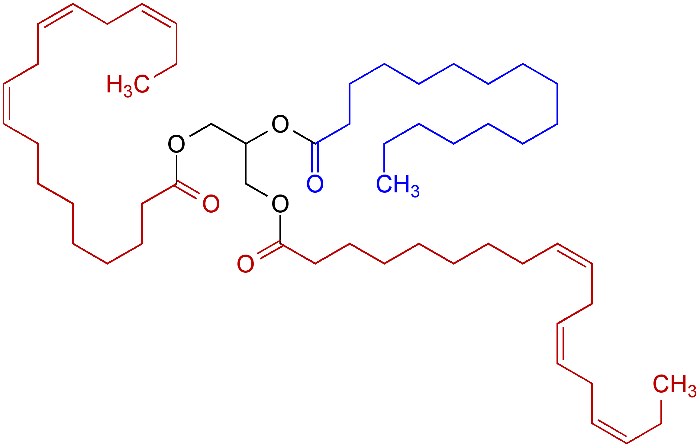 Triglyceride_in_Poppyseed_oil